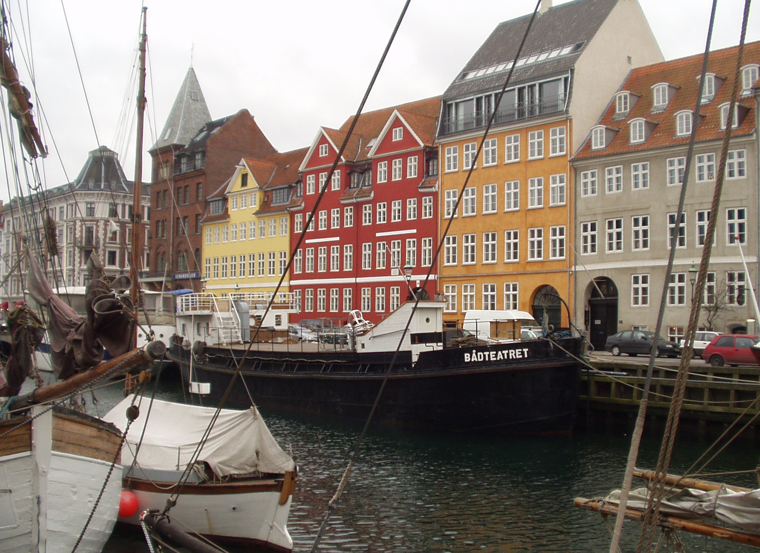 Baadteatret (The Boat Theatre), Copenhagen. Photo: Bjoern Andersen